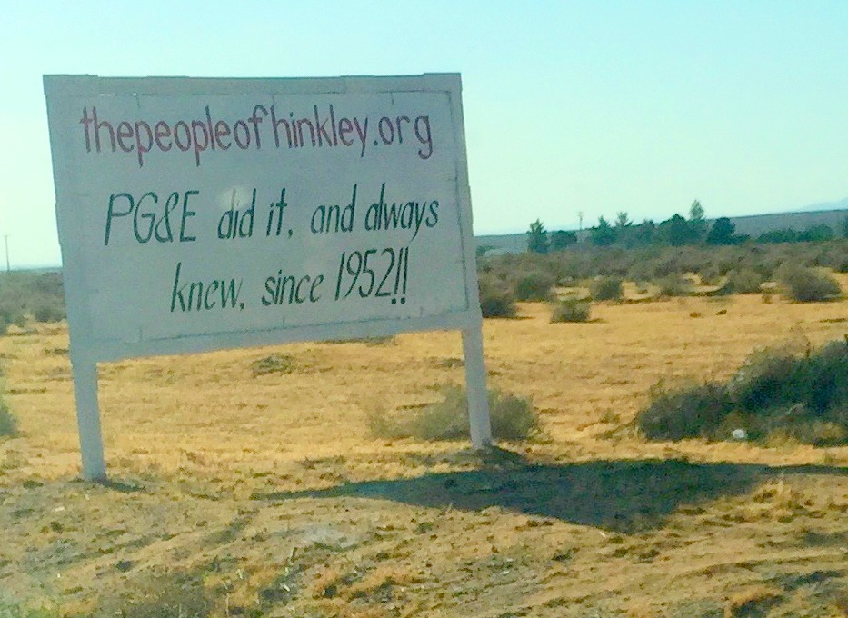 I edited the original file by Alison Cassidy, with fill light and cropping.